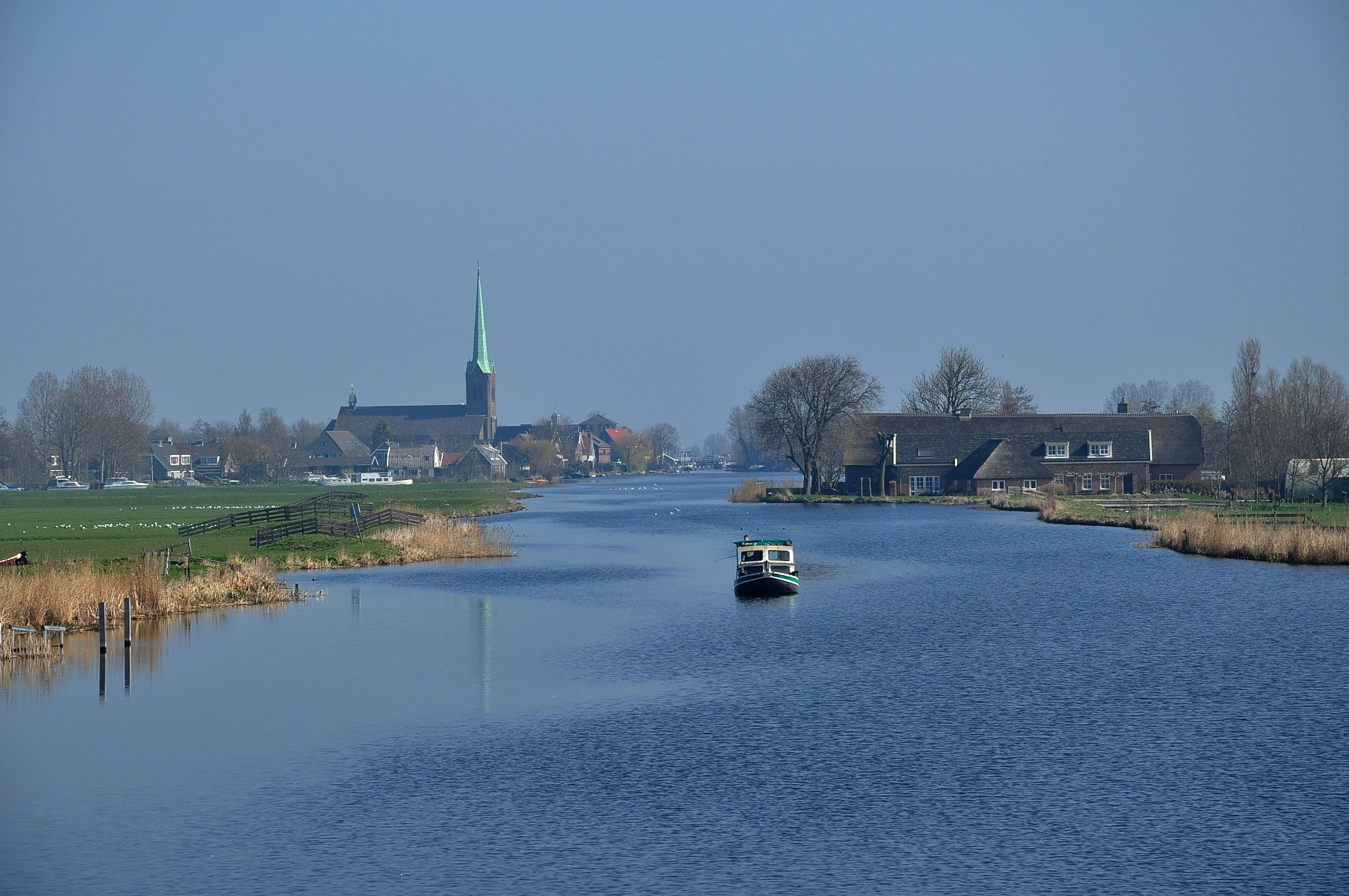 Hoogmade on the Does Canal (municipality Kaag en Braassem, Province South-Holland, Netherlands). At left are the so-called Piest polders.